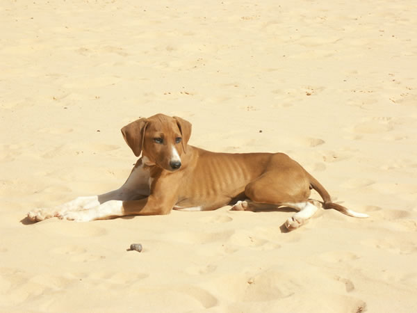 Azawakh puppy in Sahel